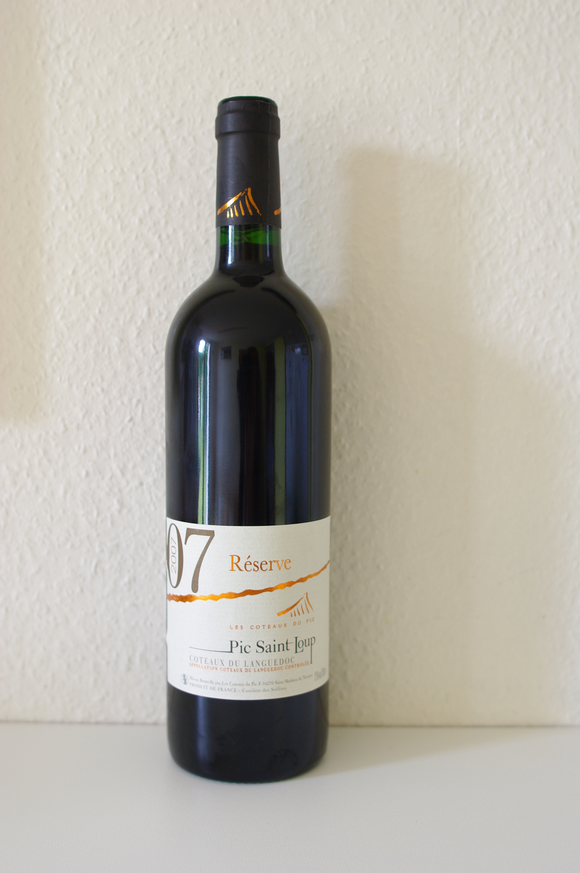 AOC Pic-saint-loup red 2007